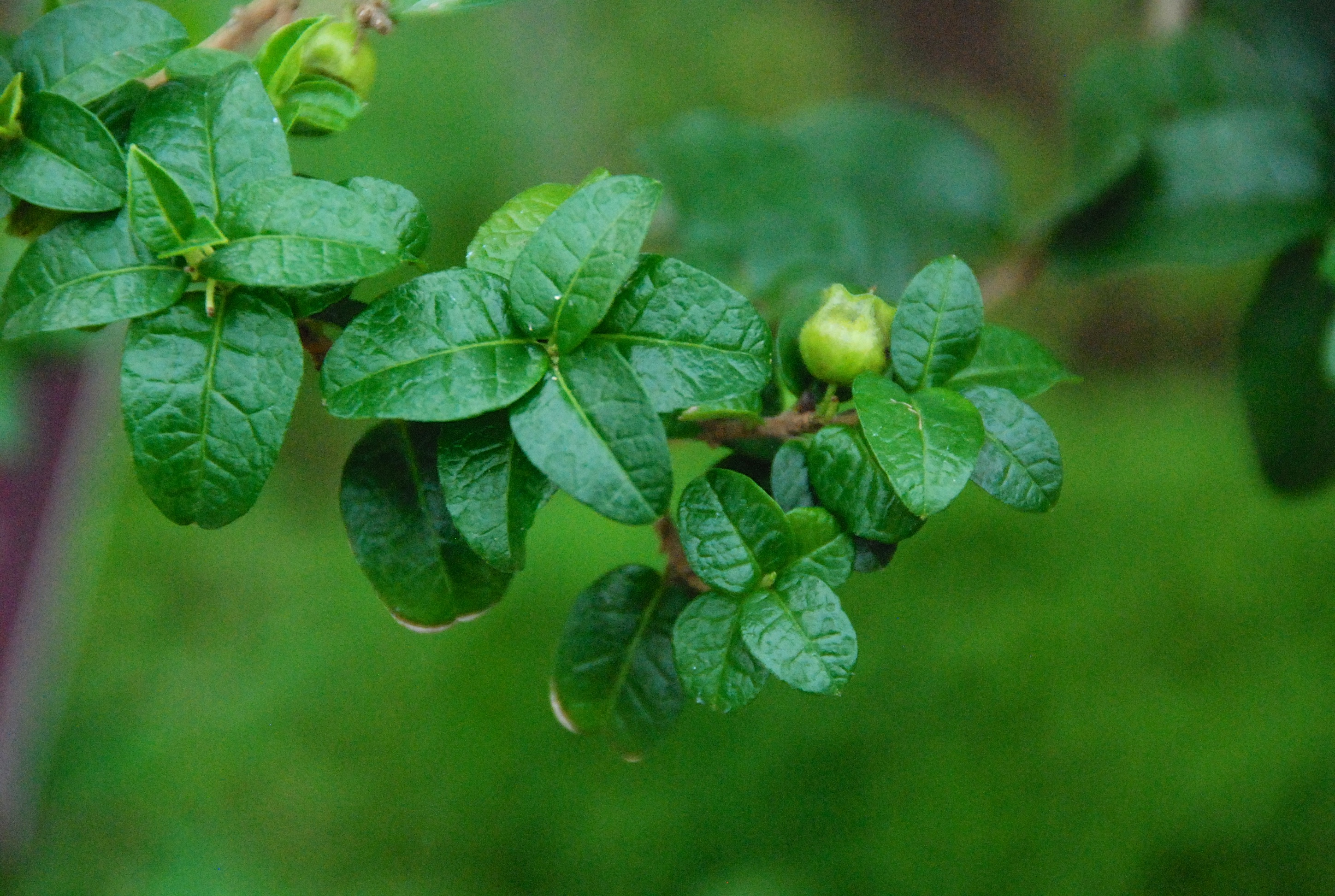 Rhaphithamnus venustus au Conservatoire botanique national de Brest.